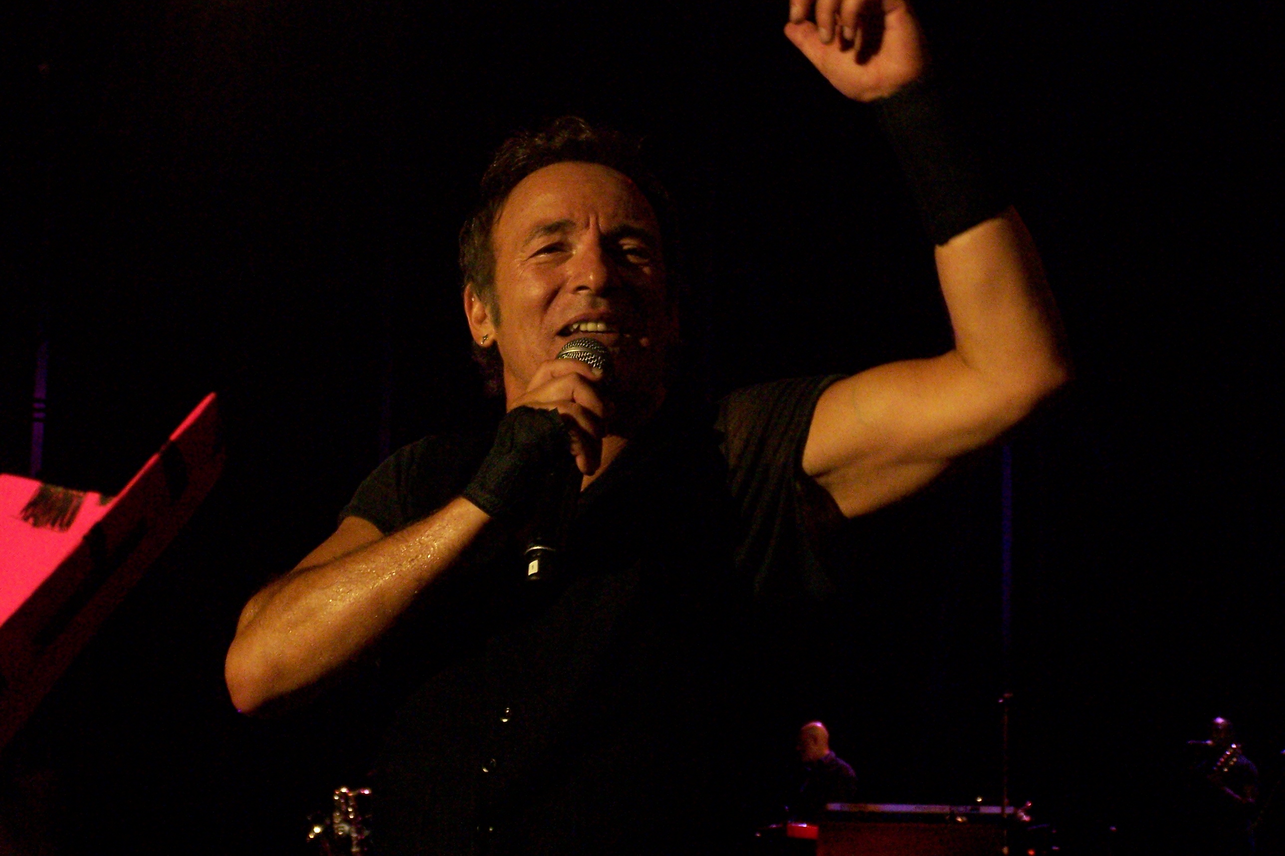 Bruce Springsteen performing in Spain, Working on a Dream Tour, Valladolid